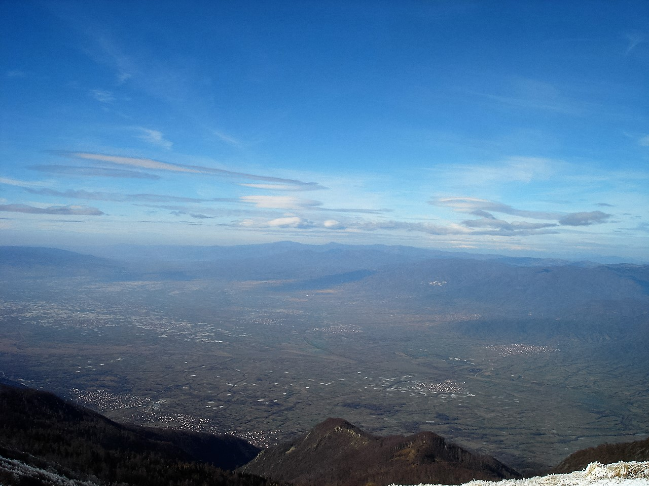 Strumica valley seen from Belasica